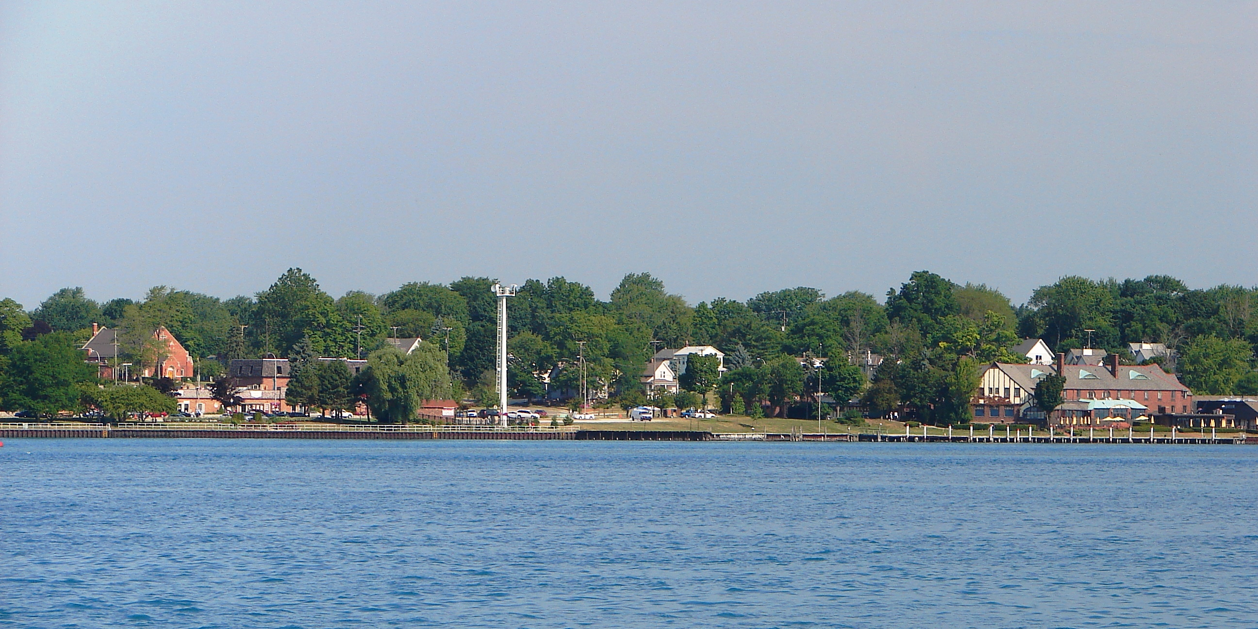 Skyline of St. Clair as seen across the St. Clair River, St. Clair County, Michigan, USA